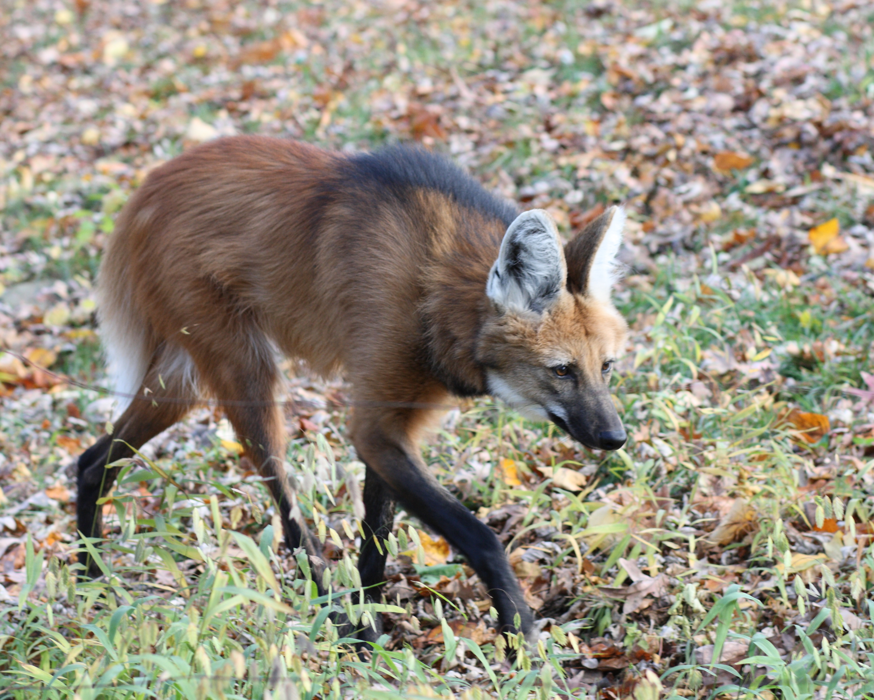 A Maned Wolf (Chrysocyon brachyurus) at Beardsley Zoo - OpenStreetMap (Info)